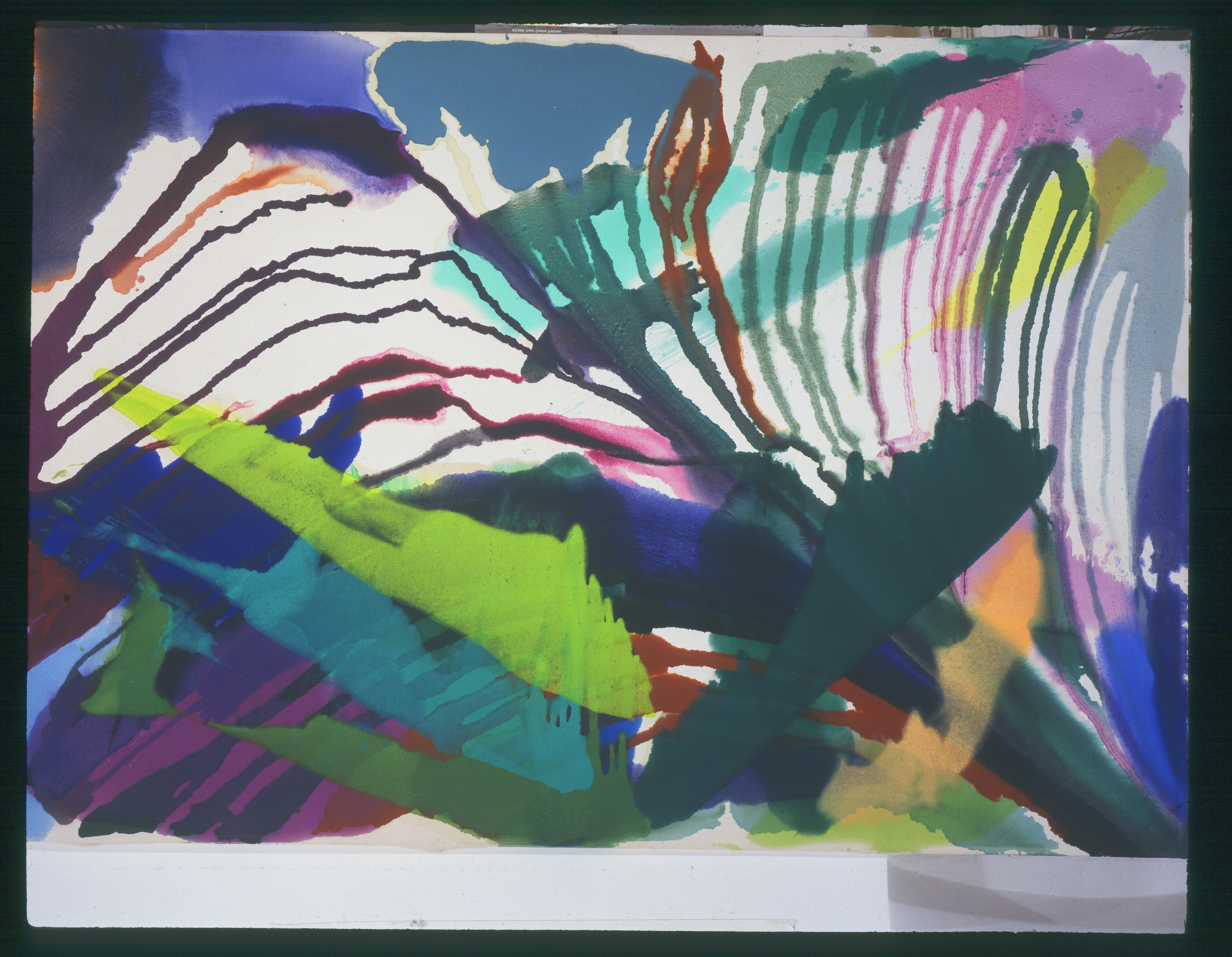 Gottfried Mairwöger, Untitled, Oil on Canvas